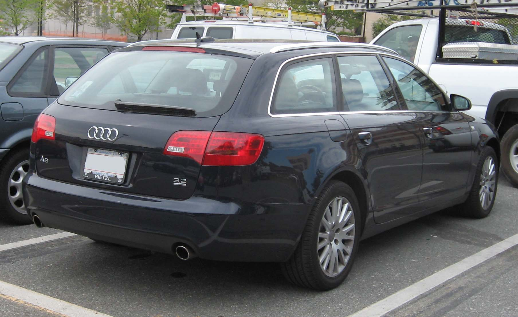 2006-2008 Audi A6 photographed in College Park, Maryland, USA.